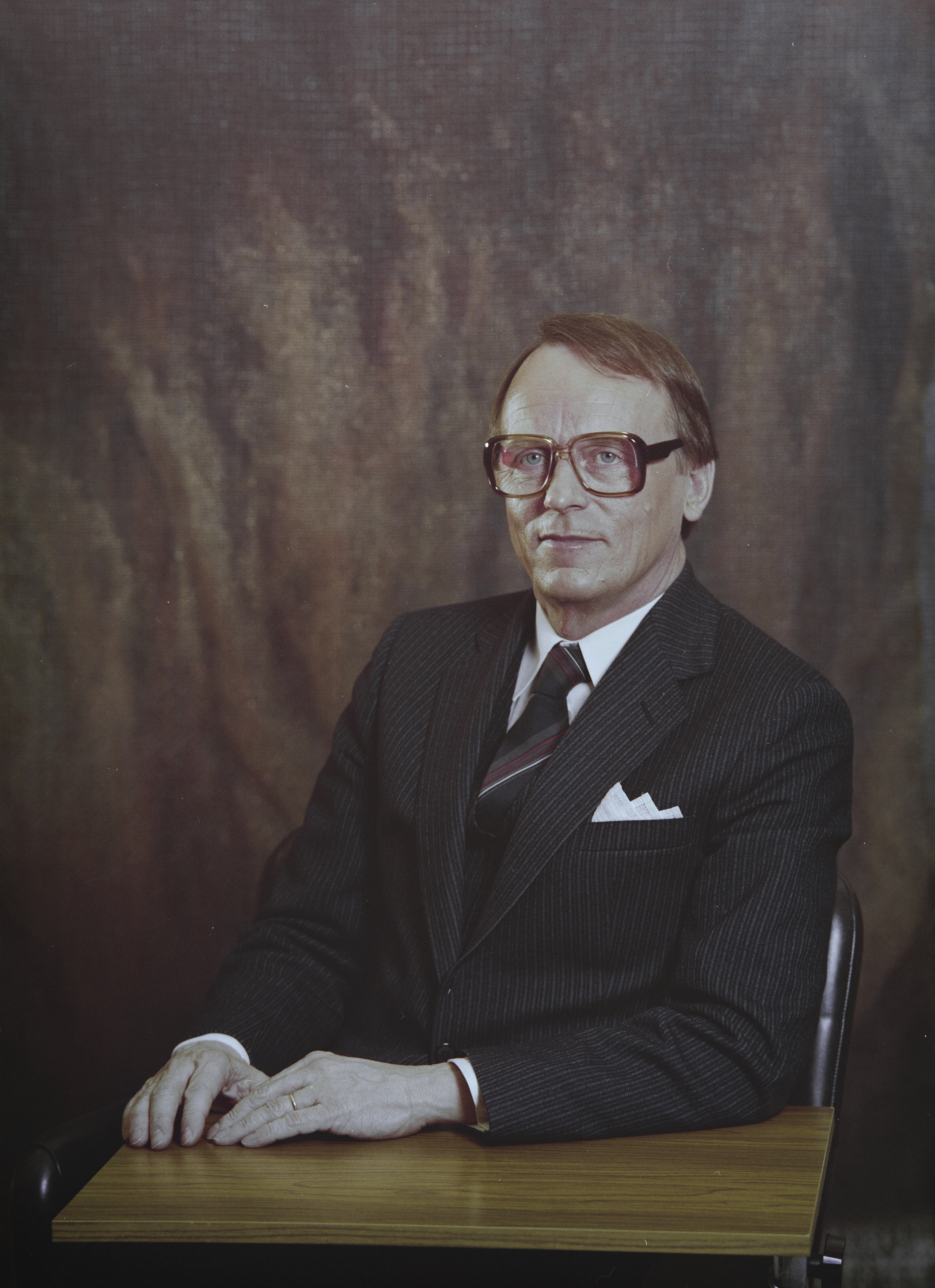 Photograph of the Finnish professor and executive Yrjö Pessi (1926–).